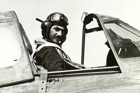 Papua, New Guinea. 1942-07-27. Squadron Leader P.J. Turnbull, DFC., the commanding officer of No. 76 (Kittyhawk) Squadron, Royal Australian Air Force, just before setting out on a mission over Japanese-occupied Buna.